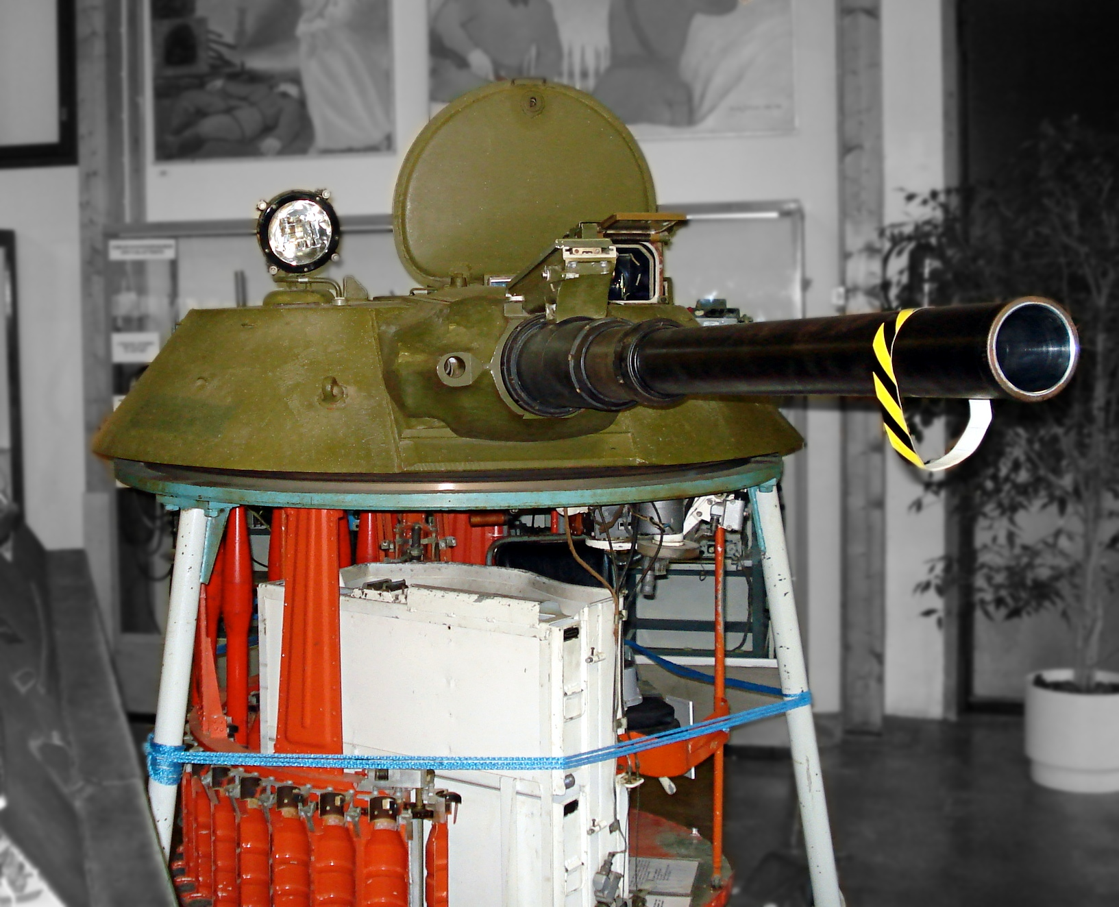 Training turret for Soviet BMP-1 IFV, displayed at Parola Tank Museum. Photo taken on July 14, 2006. Source: Photo by me, User:Balcer.